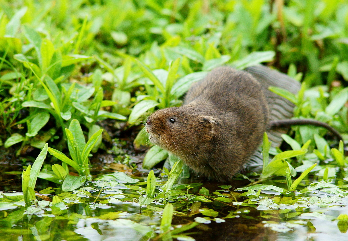 A water vole, enjoying life 'in the wild'. Seen beside Mill Road, Arundel; water voles were introduced to the Arundel Wetland Centre, several years ago, but escapees have successfully colonised the local area. A small group of photographers had gathered, and this little chap was happy to pose for several minutes.